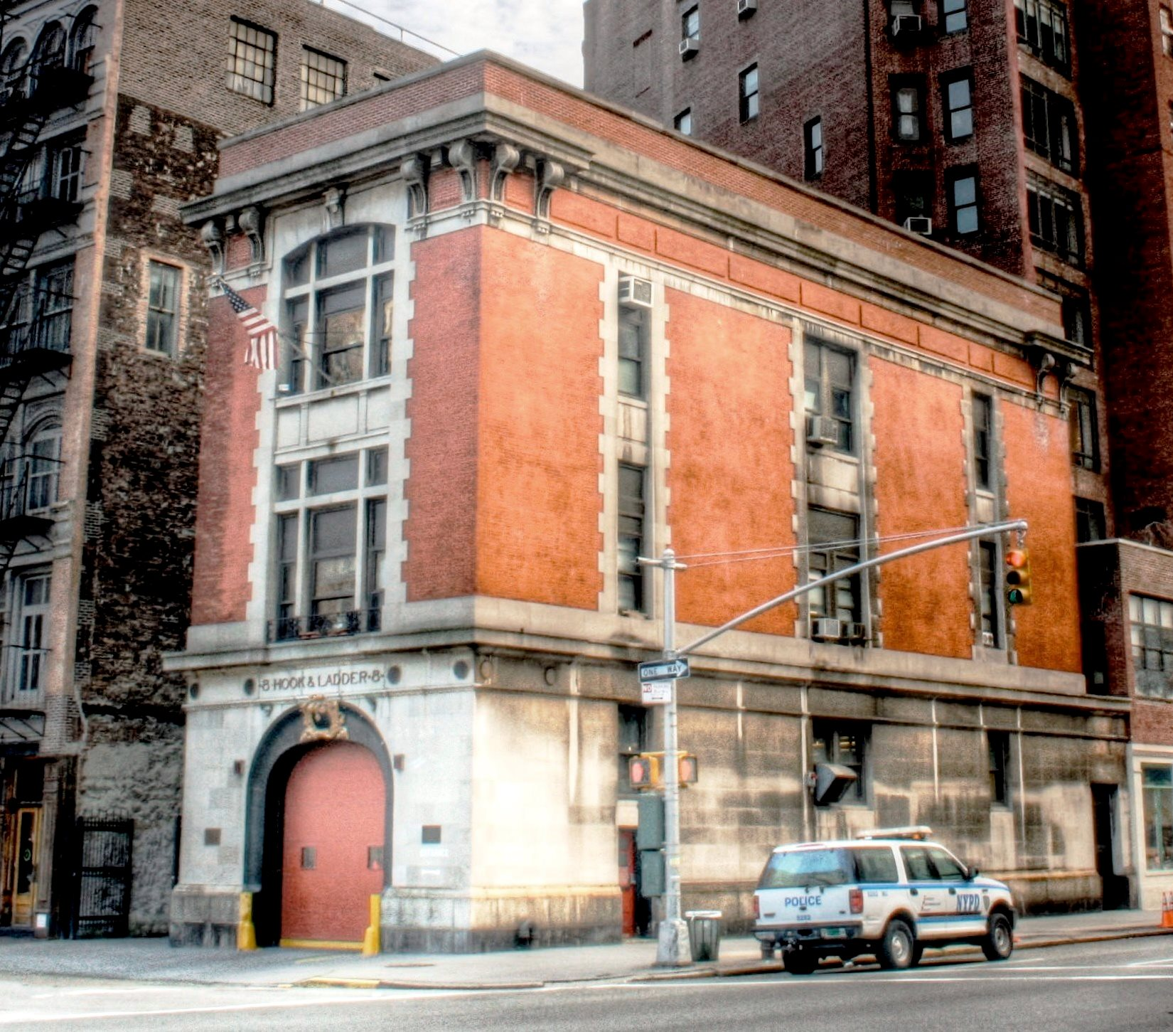 Looking southeast across North Moore and Varick Streets at the FDNY Firehouse that was used for the exterior shots in Ghostbusters, and later modeled as the firehouse in the cartoons. It is located at: Hook & Ladder 8 14 N. Moore Street New York, NY 10013